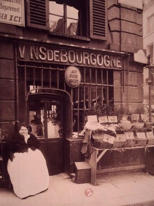 View of the Au Port Salut cabaret in rue des Fossés-Saint-Jacques in Paris. Photo by Eugène Atget, 1903.